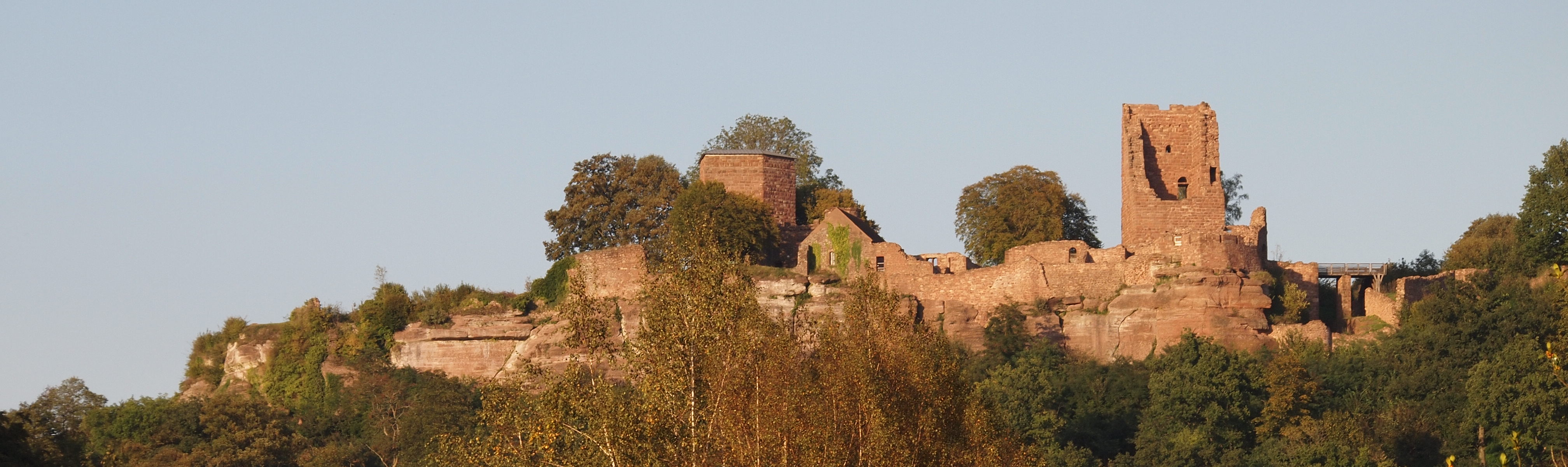 Ruins of the castle of Lutzelbourg in Moselle (Lorraine, France).